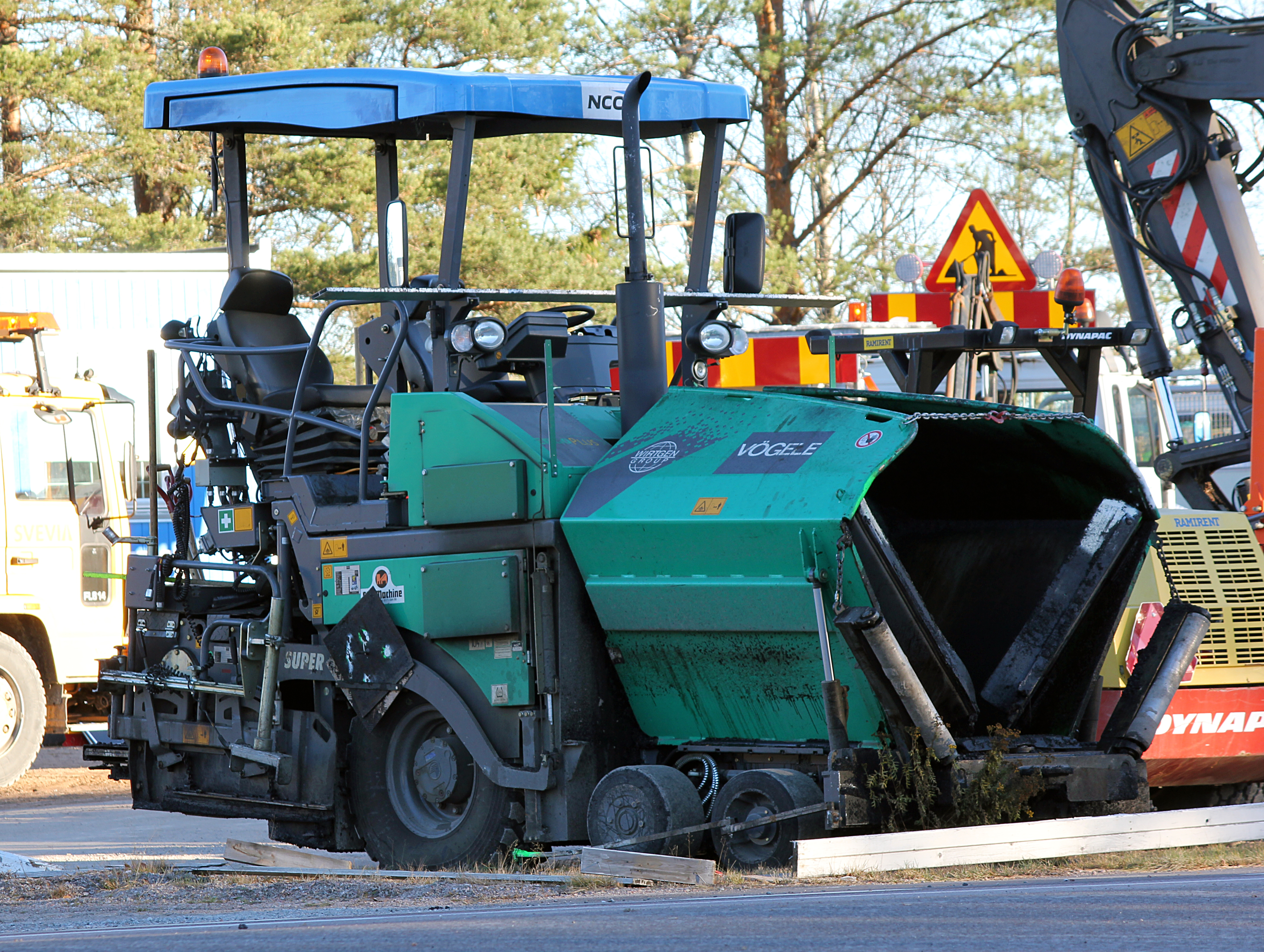 Vögele Super 1303-2 paver at roadworks at Riksväg 70 (National road 70) in Rembo, Sweden.